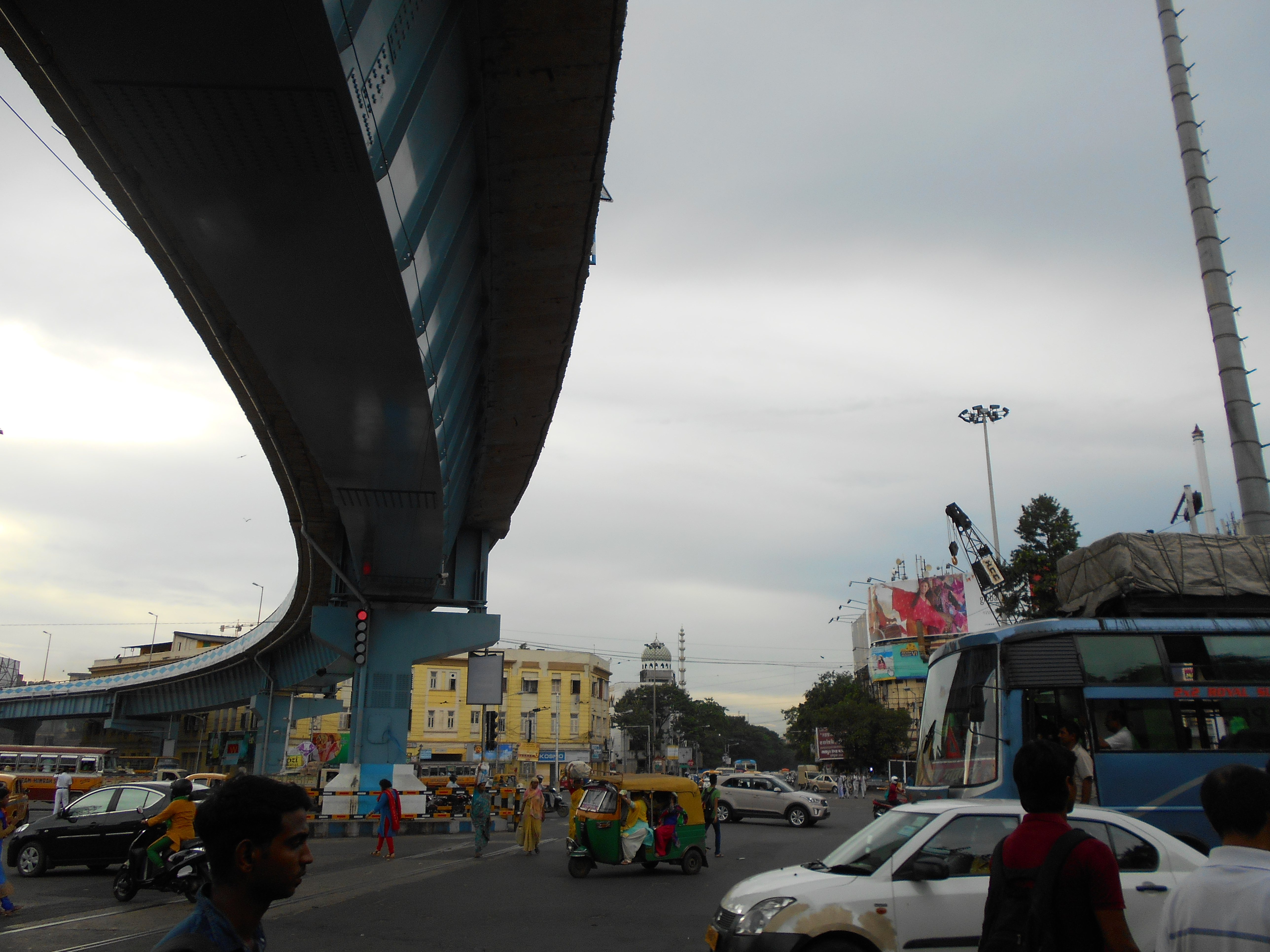 Park Circus Flyover in Kolkata